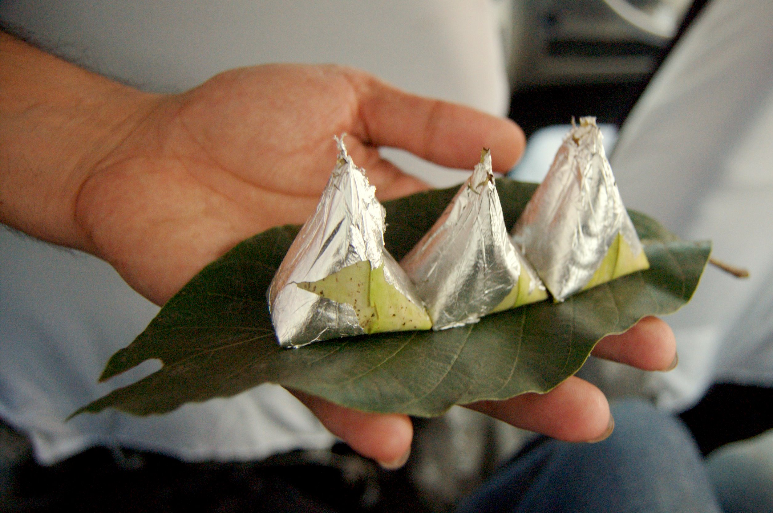 the most spectacular paan of the trip.